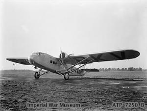 Blackburn CA 15 C monoplane of 1932, built for comparison with a similar biplane, also built by Blackburn